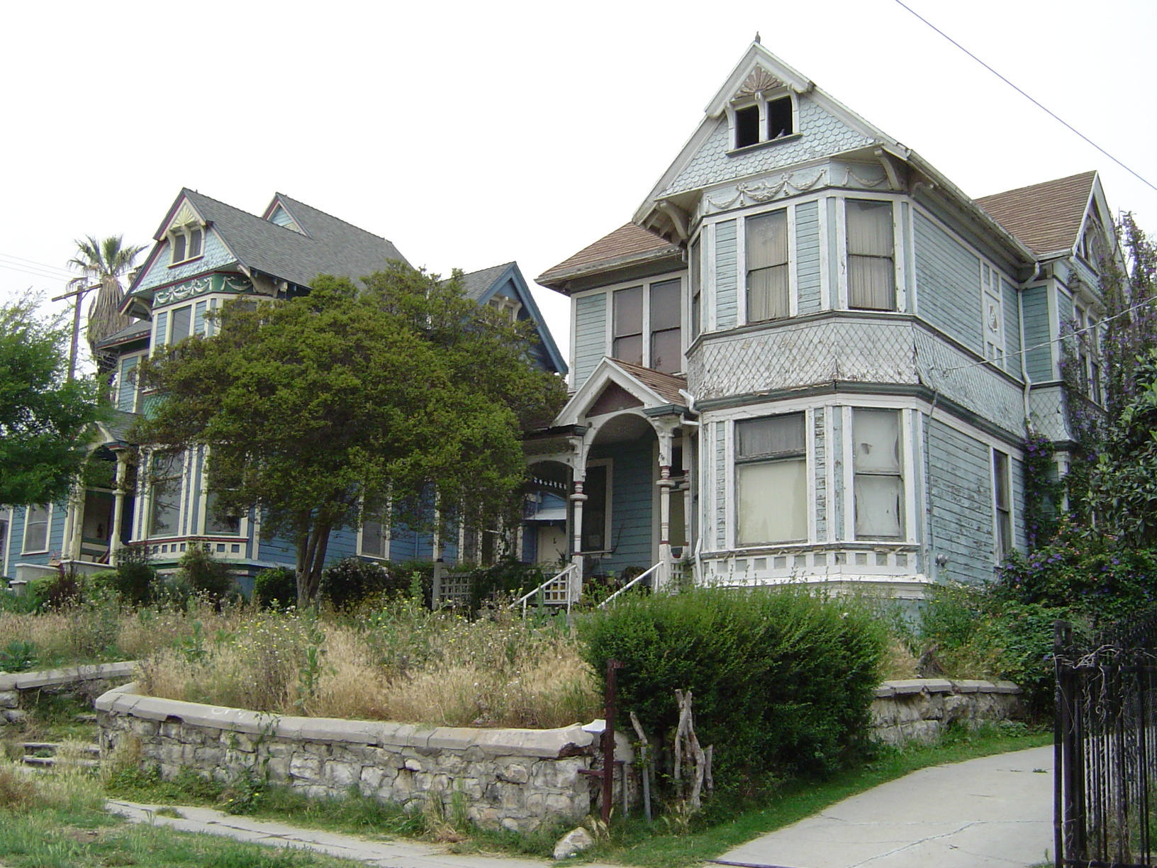 Houses in Angelino Heights, Los Angeles